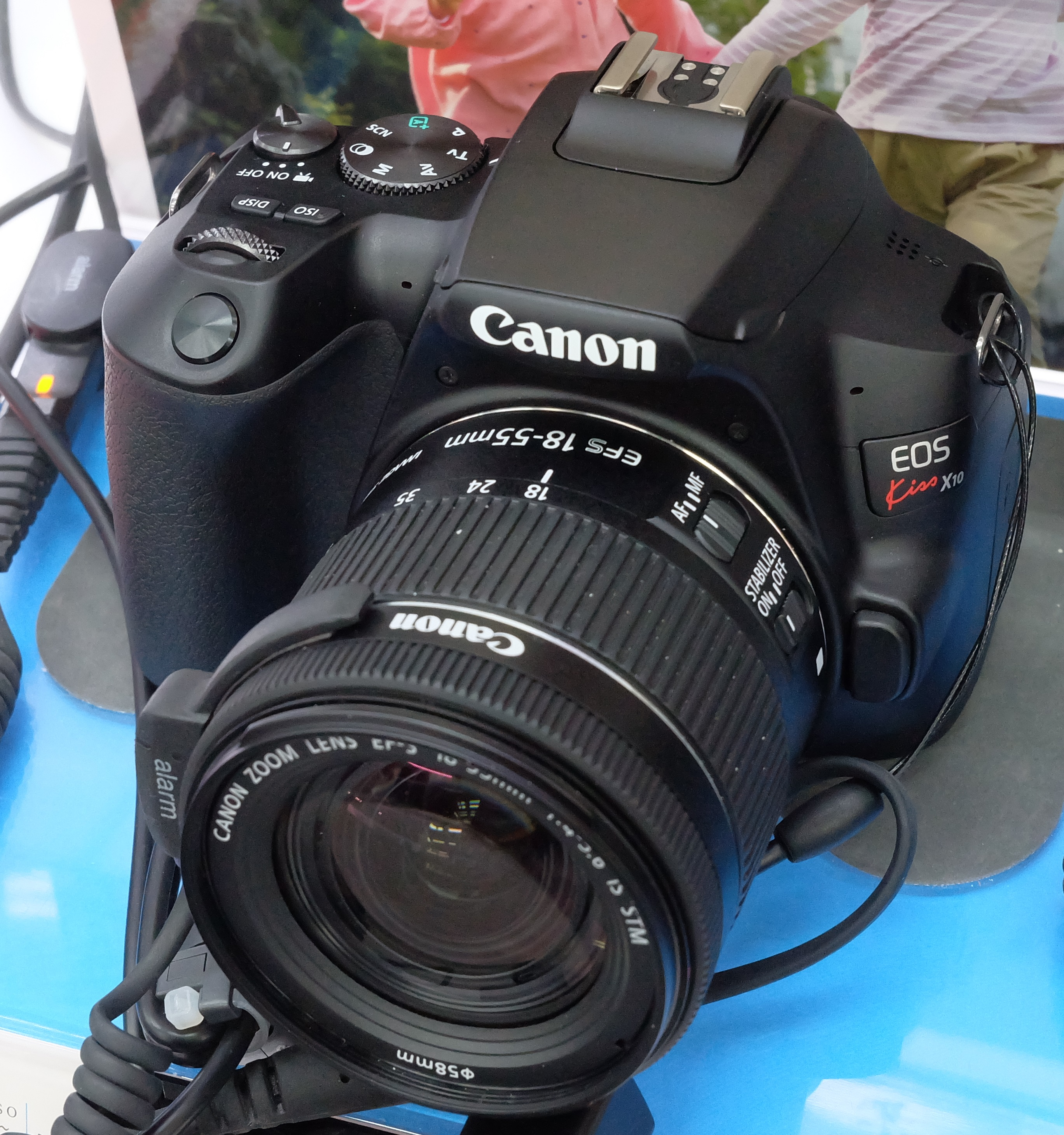 Canon EOS Kiss X10 (photo taken at Yodobashi Camera)